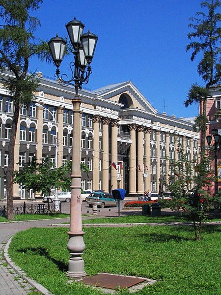 Building of East-Siberian railway